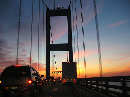 crossing the Chesapeake